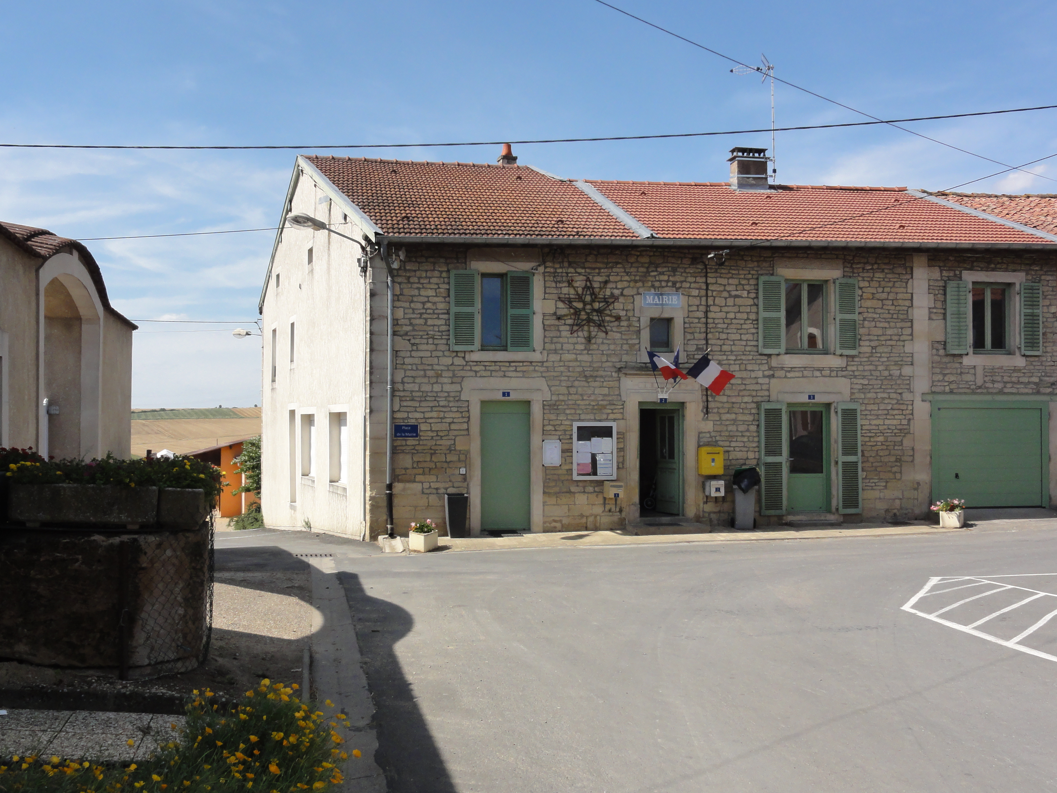 Sorbey (Meuse) mairie